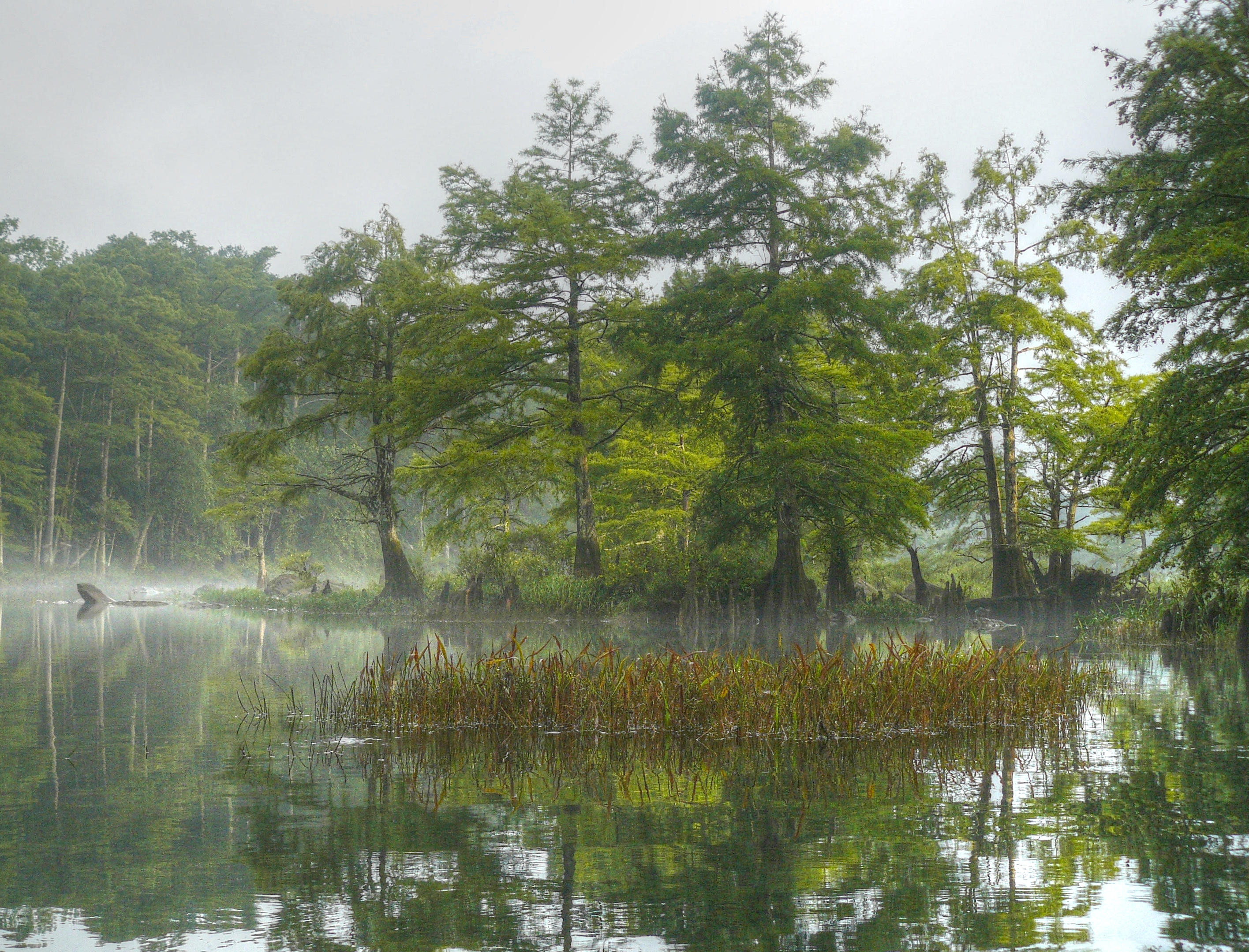 Taxodium distichum on the Lower Mountain Fork River in Broken Bow, Oklahoma.